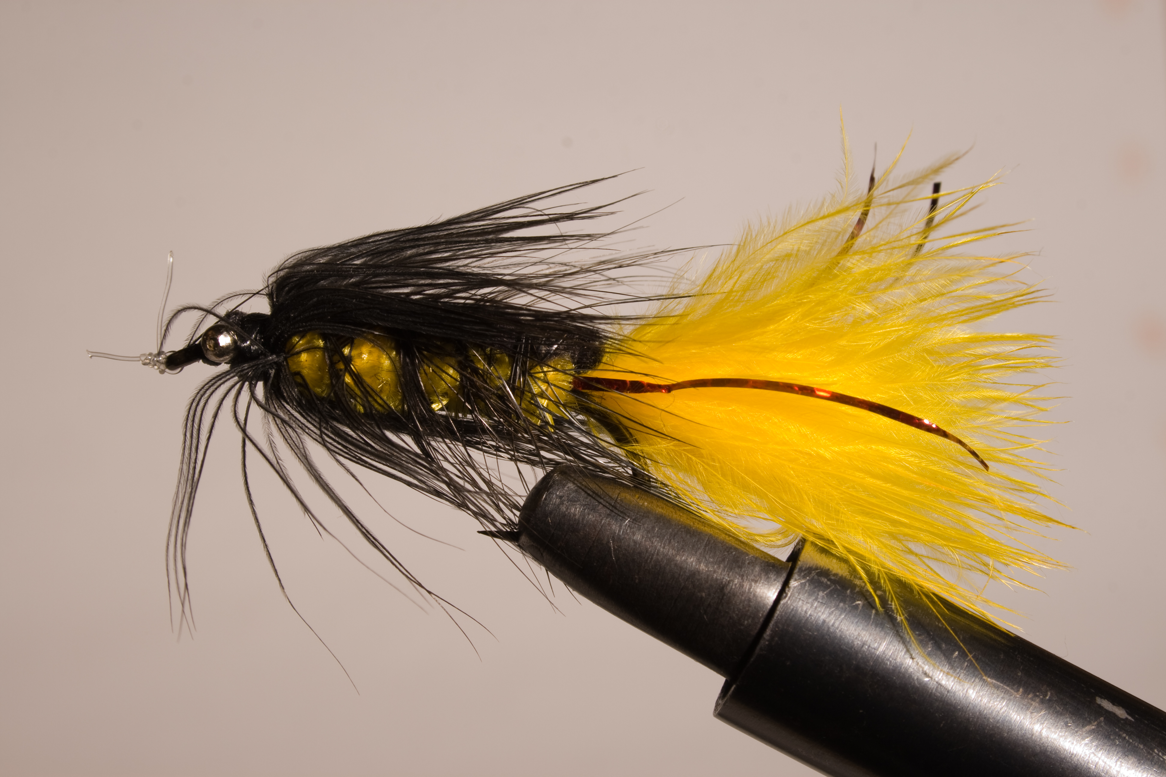 Mosca wooly Bugger